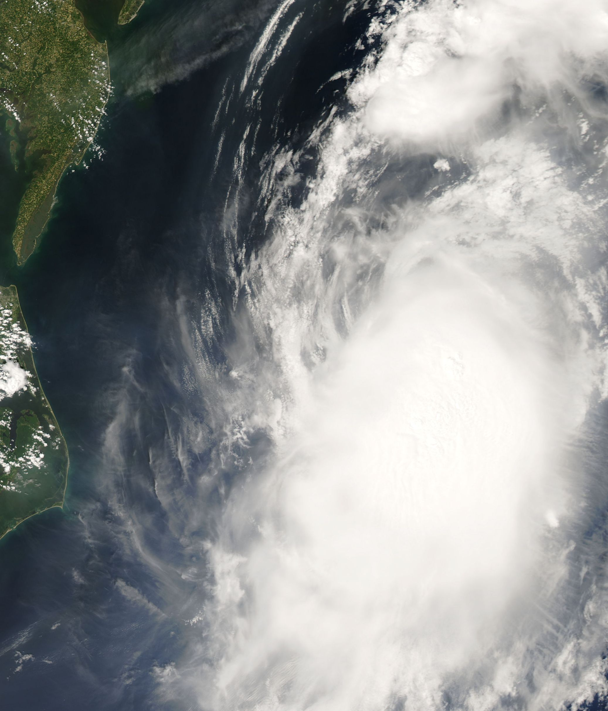 Tropical Storm Cristobal as seem from Terra Satellite on 2008-07-22